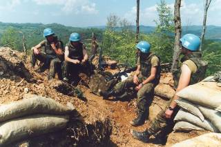 Dutchbat soldiers